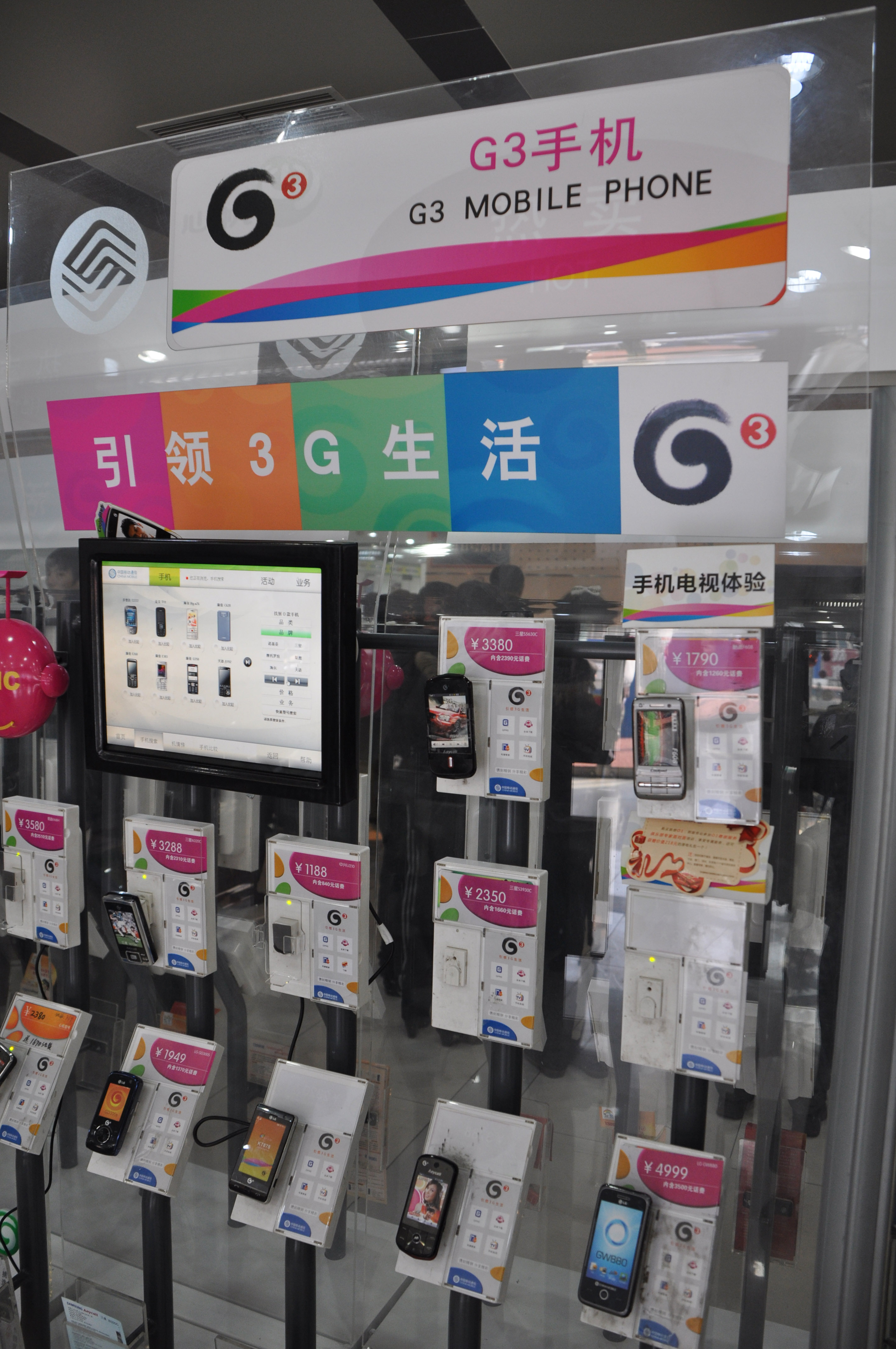 Third generation mobile phones (TD-SCDMA) for China Mobile (Dalian, China)